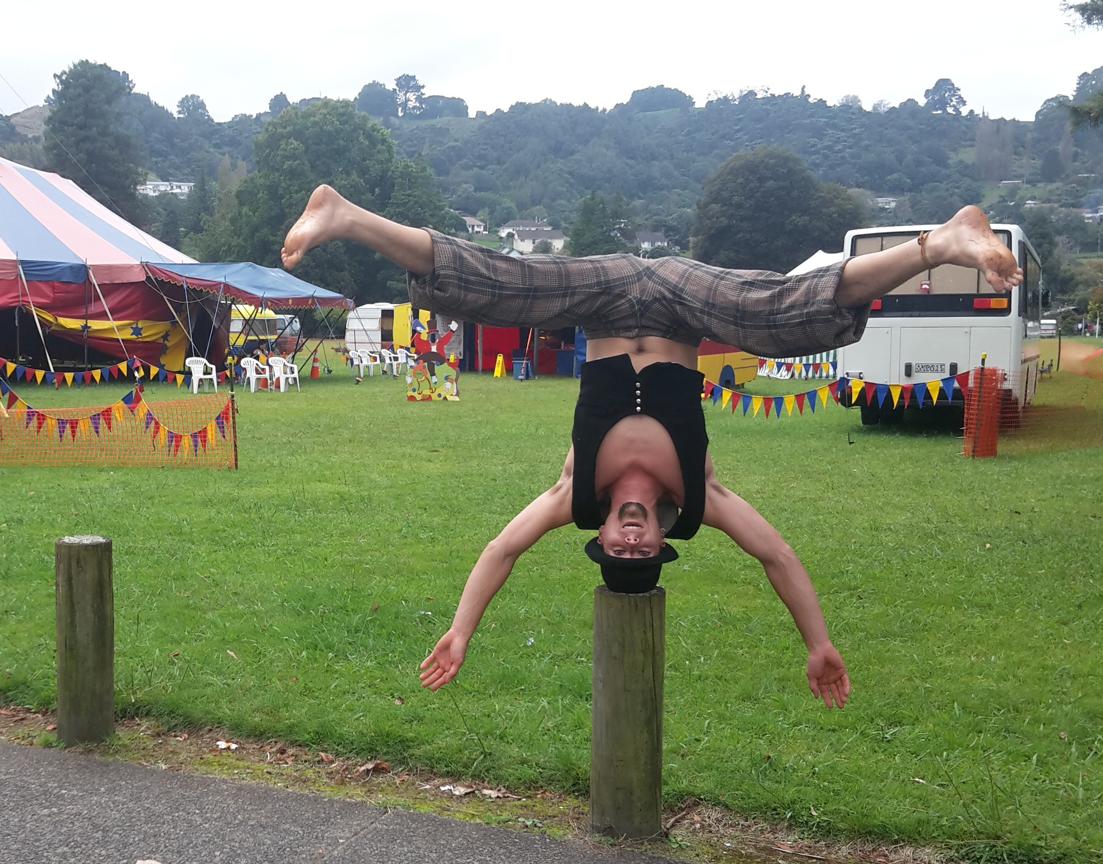 Circus artist performing free headstand